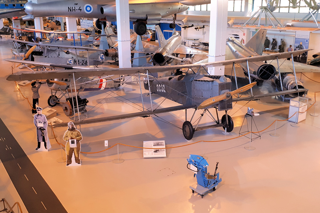 Breguet 14 A2 on display at the Finnish Aviation Museum